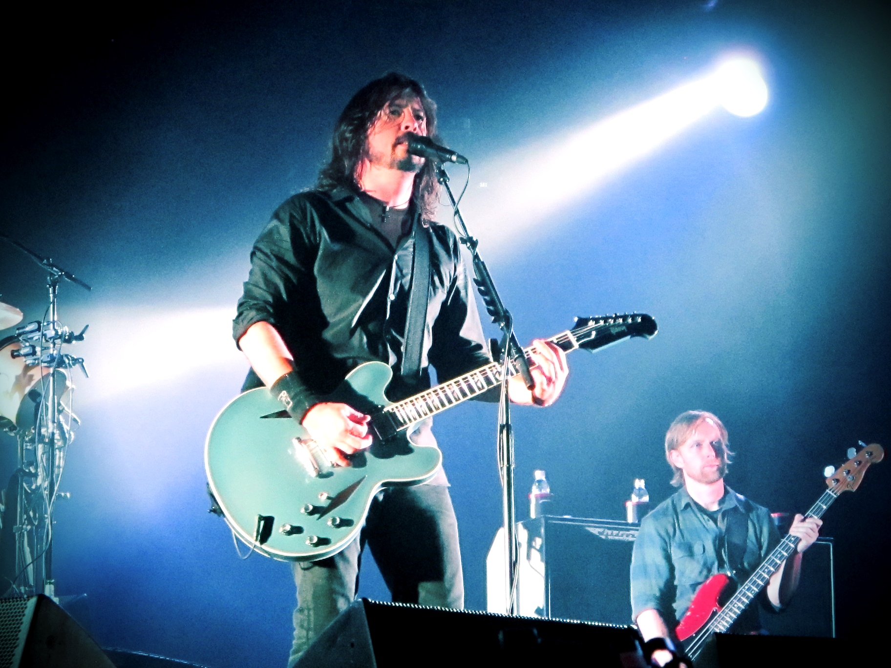 Foo Fighters @ AMMI Park, December 2nd 2011